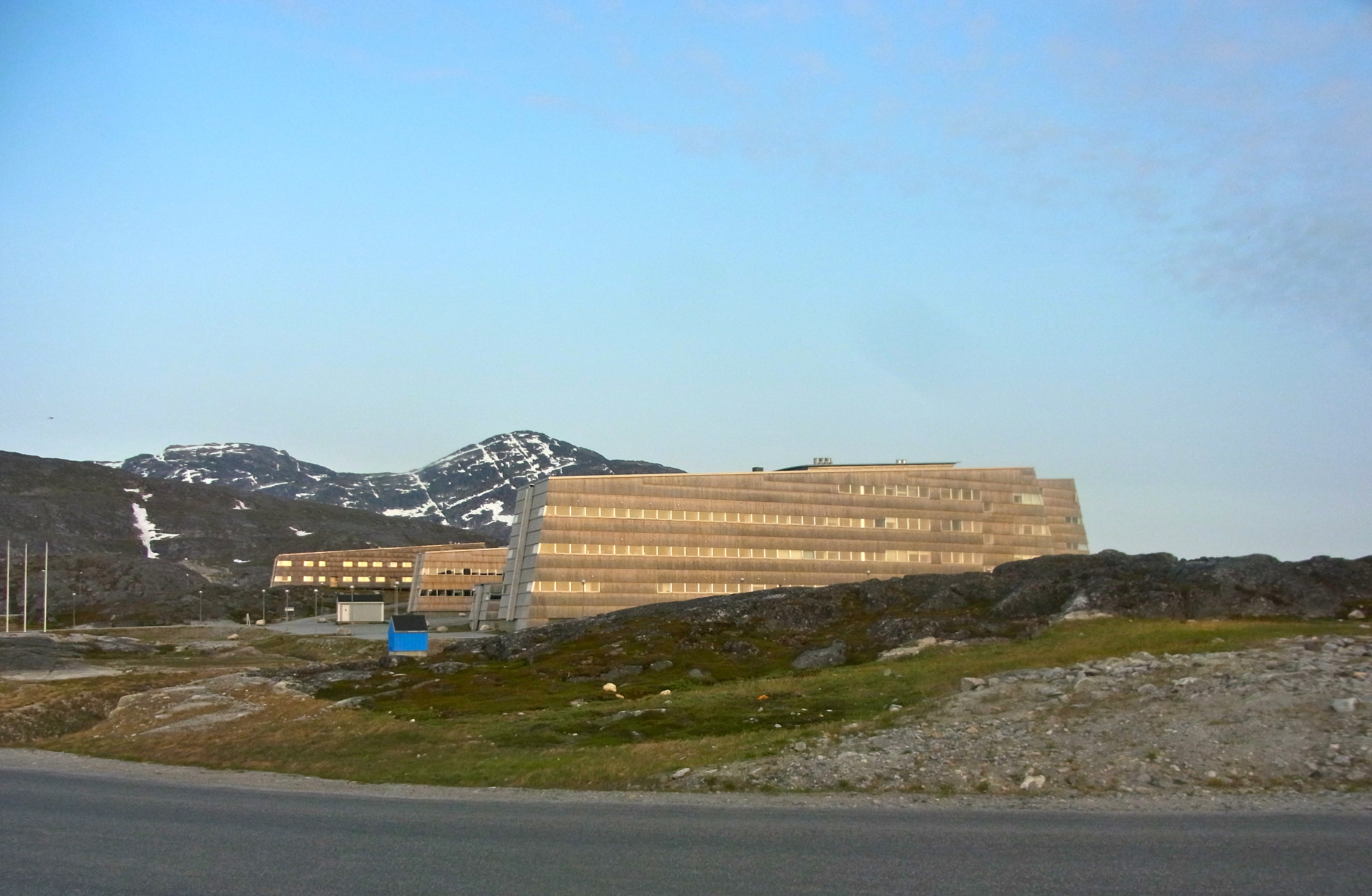 Ilisimatusarfik